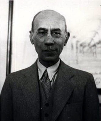 original picture had a logo from iichs but they are not the owner of the work. The picture is from more than 60 years age and by iranian law it is in public domain now.